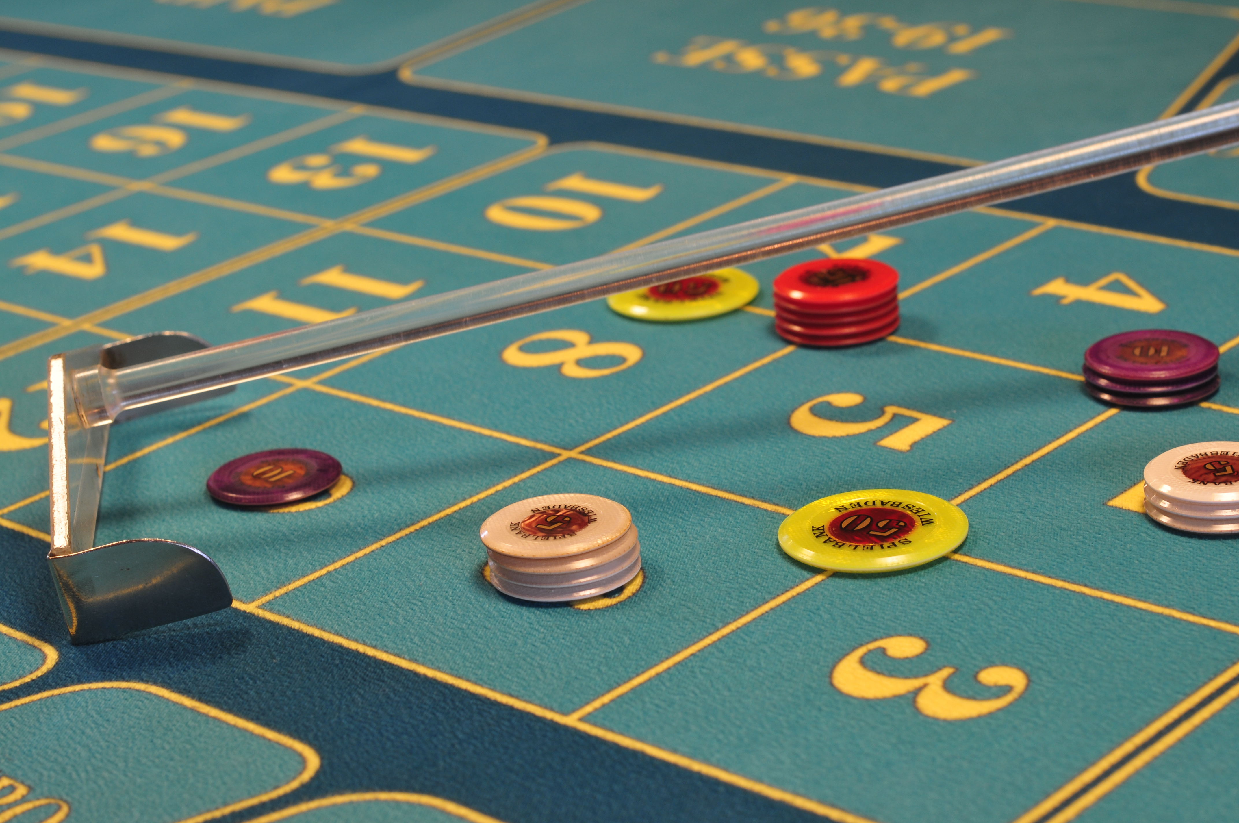 Poulette table at Spielbank Wiesbaden, Germany Wikipedia im Landtag – Hessen 26.–28. Februar 2013 in Wiesbaden Fragen zur Nachnutzung Wenn Sie Fragen zur Nachnutzung dieses Bildes haben, können Sie sich jederzeit gern an wenden